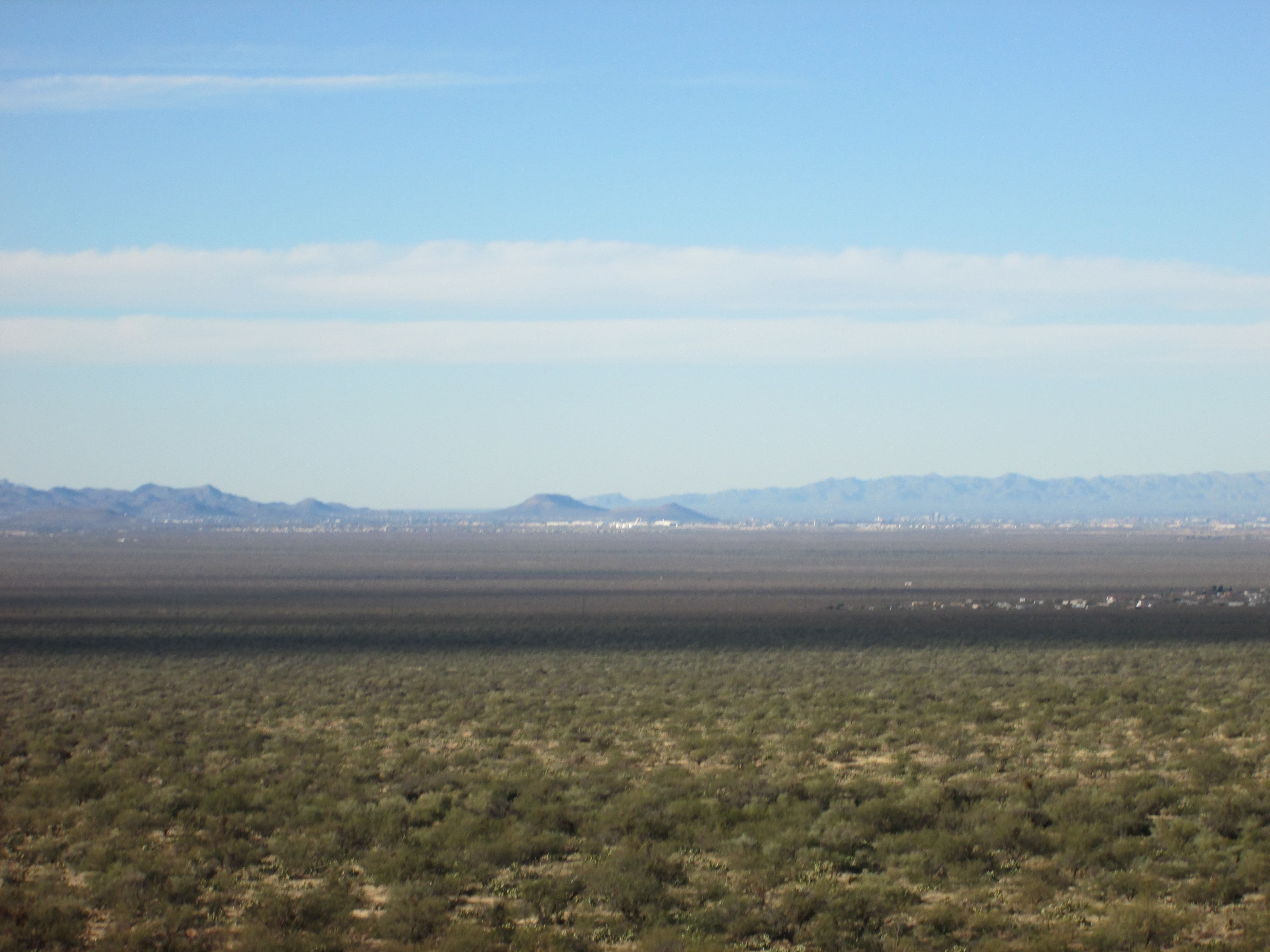 Tumamoc Hill [left] and A Mountain (Sentinel Peak) [right] from the Huerfano Butte area on December 3, 2013. The Tucson Mountains are to the left of Tumamoc Hill and A Mountain, the Catalina Mountains are at the right. Facing northwest